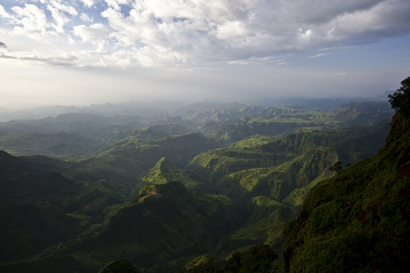 Semien Mountains, Ethiopia